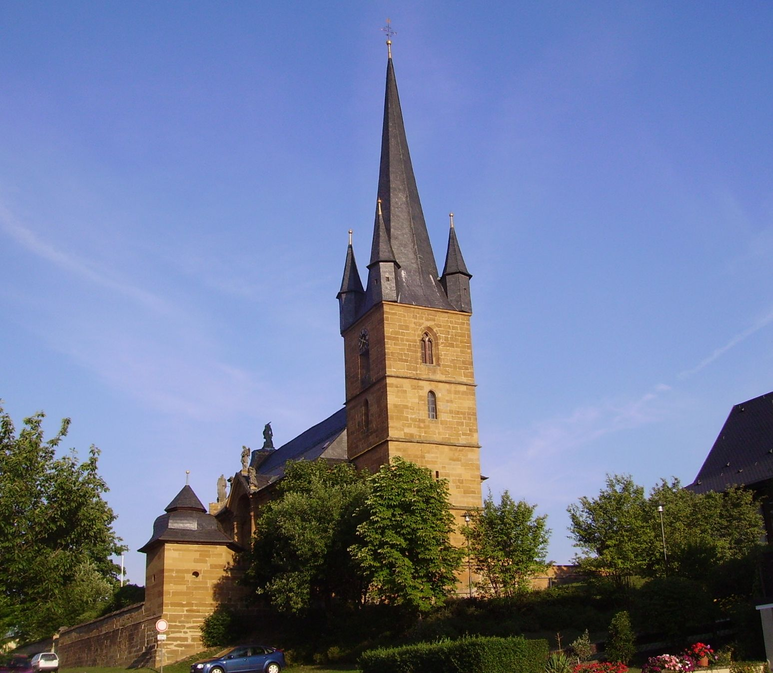 Litzendorf, exterior view of St Wenceslaus' Parish Church facing north-west.